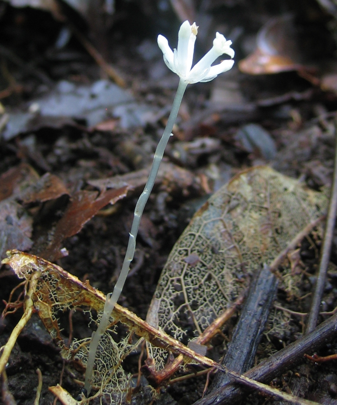 Burmannia congesta, Mount Kupe, Cameroon. Taken on 04/09/2006. Edited version, see link below for original work.